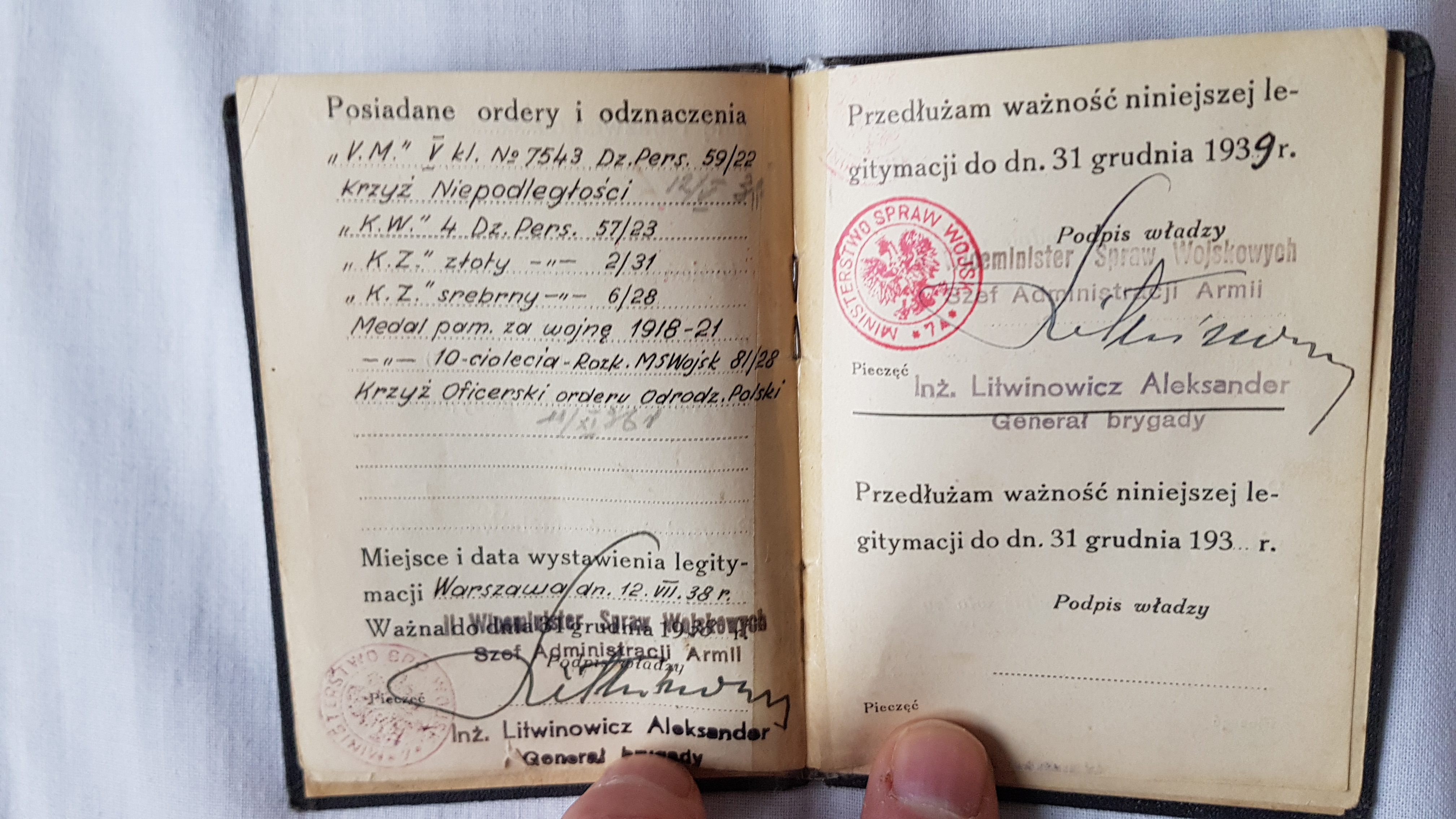 milltary ID of colonel Stanisław Witkowski, list of prewar decorations (in Polish)